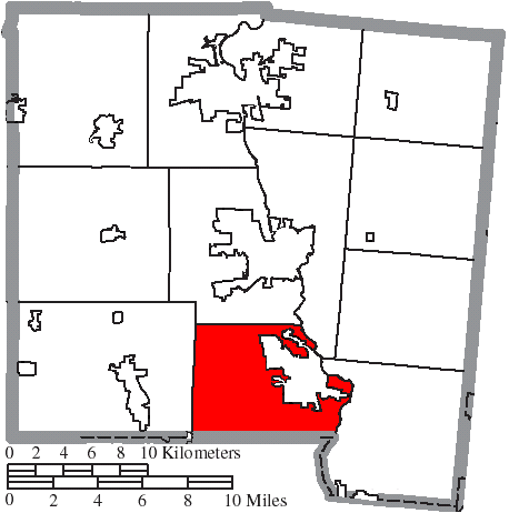 Map of the municipal and township boundaries of Miami County, Ohio, United States, as of the 2000 census, with the location of Monroe Township highlighted. Township borders are shown only in unincorporated areas in order to differentiate incorporated and unincorporated areas more clearly.